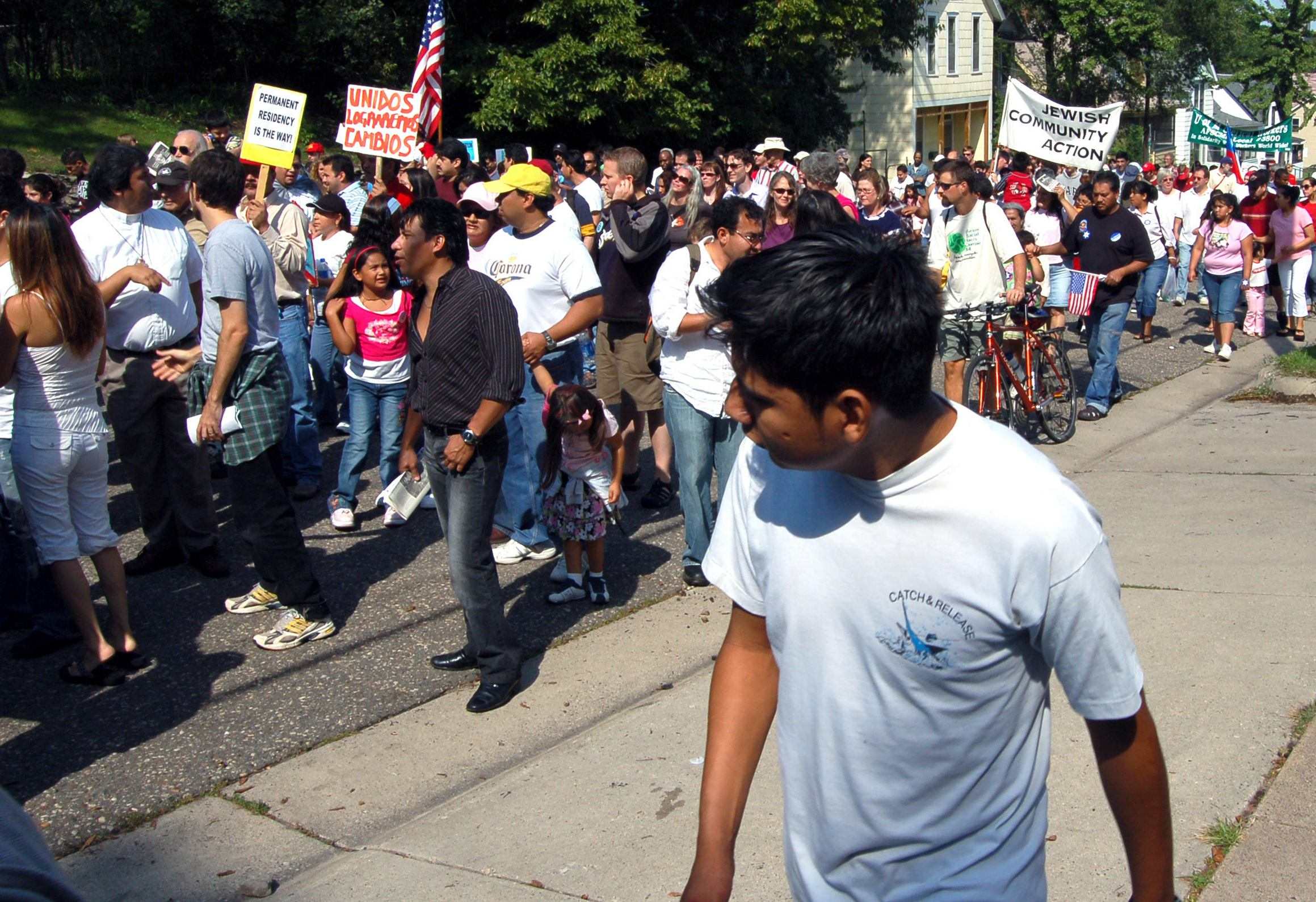 Immigrants rights march, 2006, Minneapolis, Minnesota Image may be cropped.